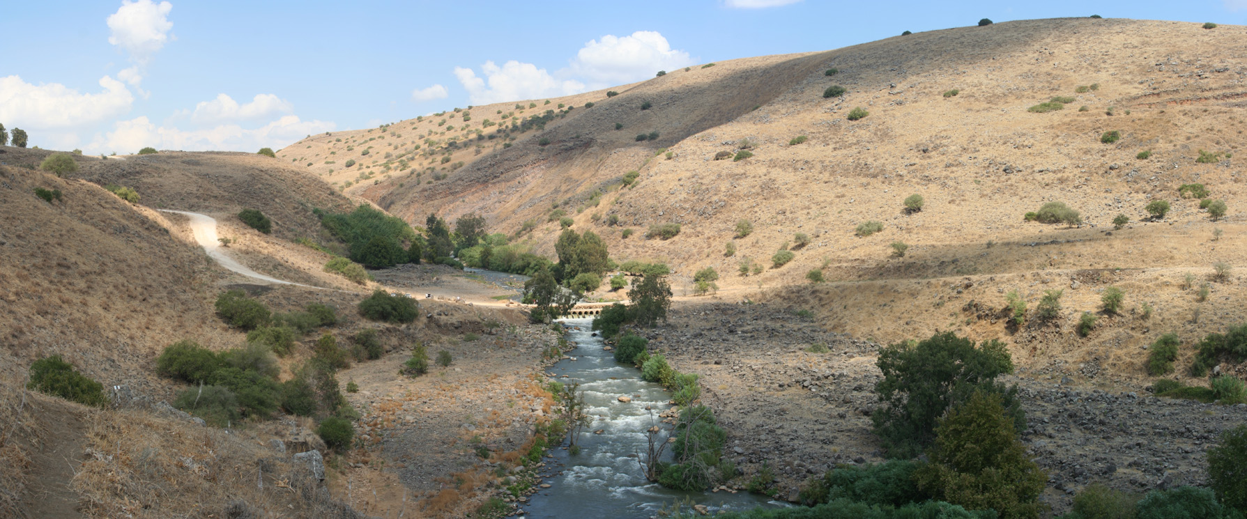 The Jordan River and "Kfar-Hanasi" bridge